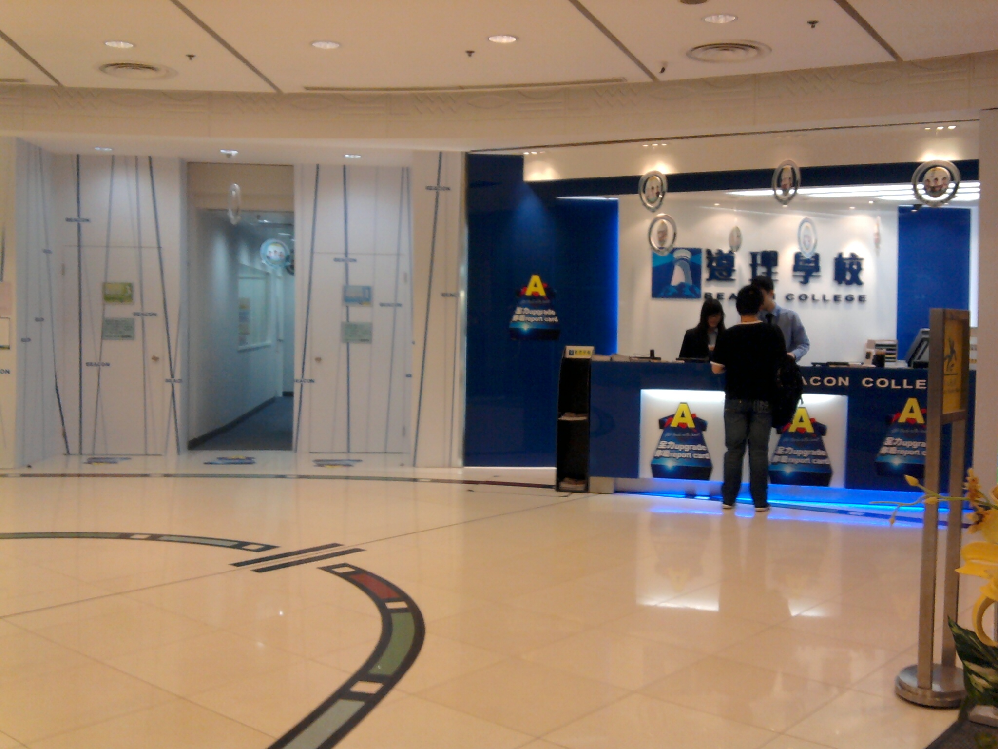 Tseung Kwan O (Metro City)